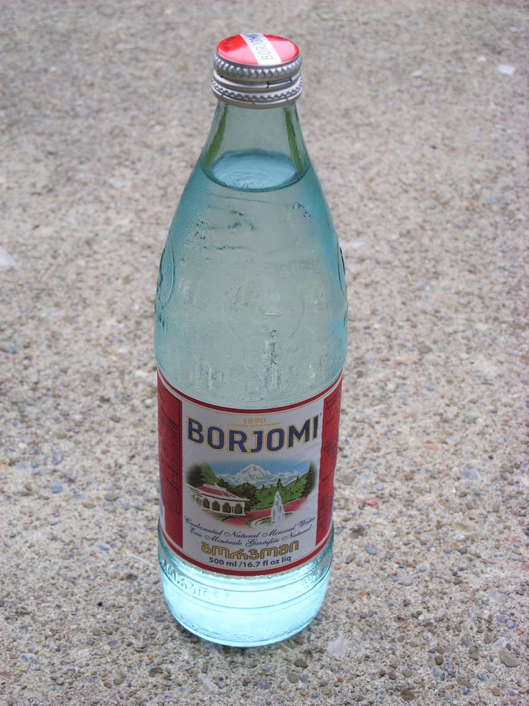 Georgian mineral water, full of salty goodness